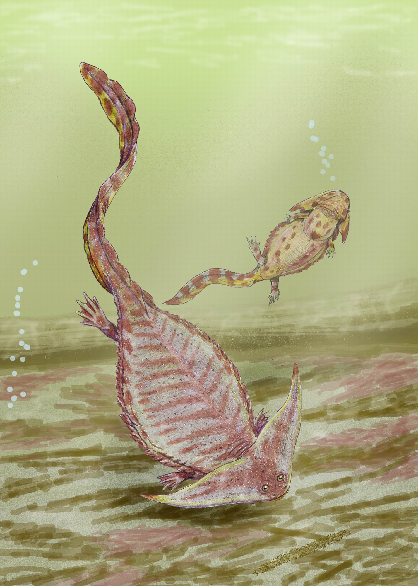 Diplocaulus from Vale formation